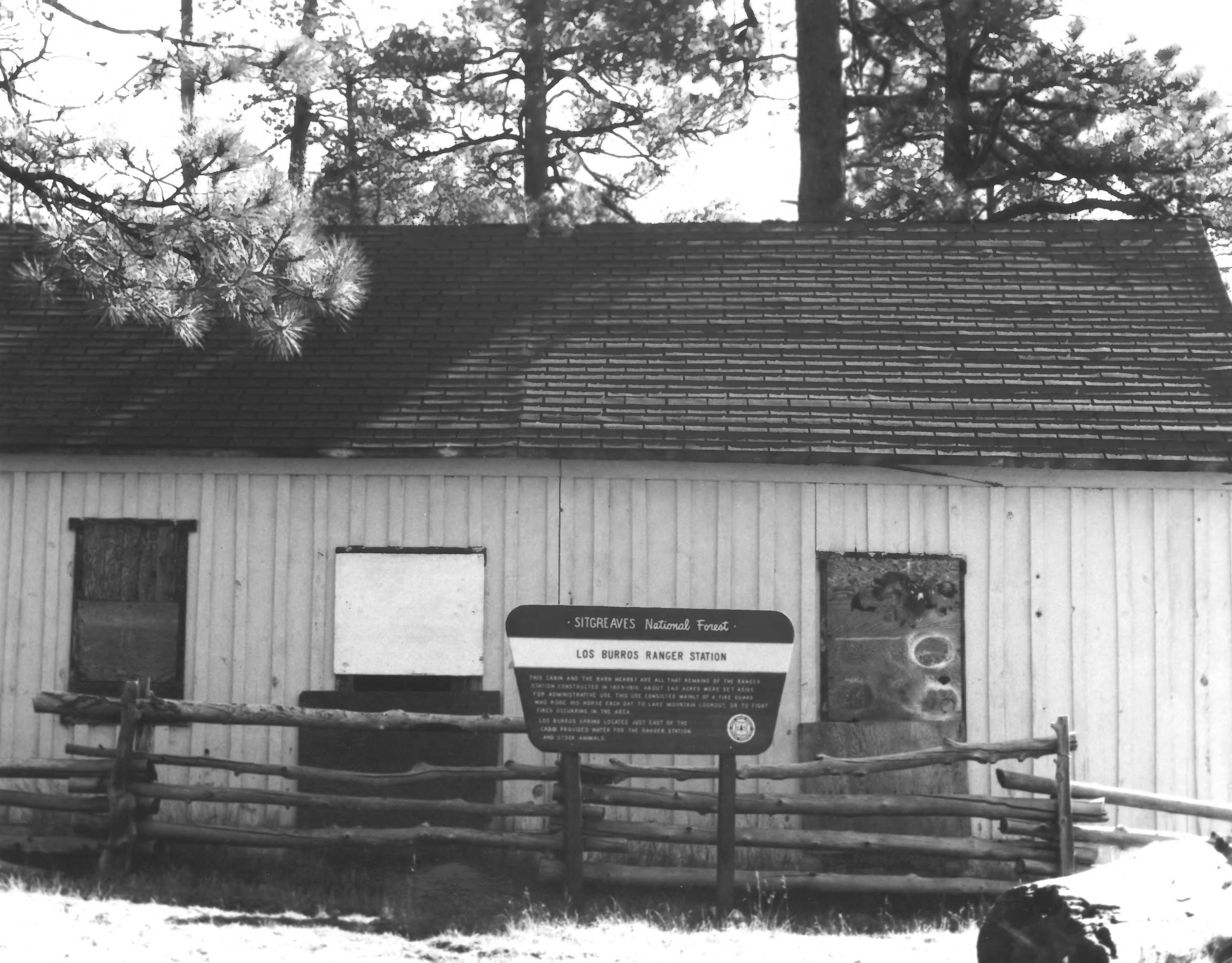 Office/House of Los Burros Ranger Station